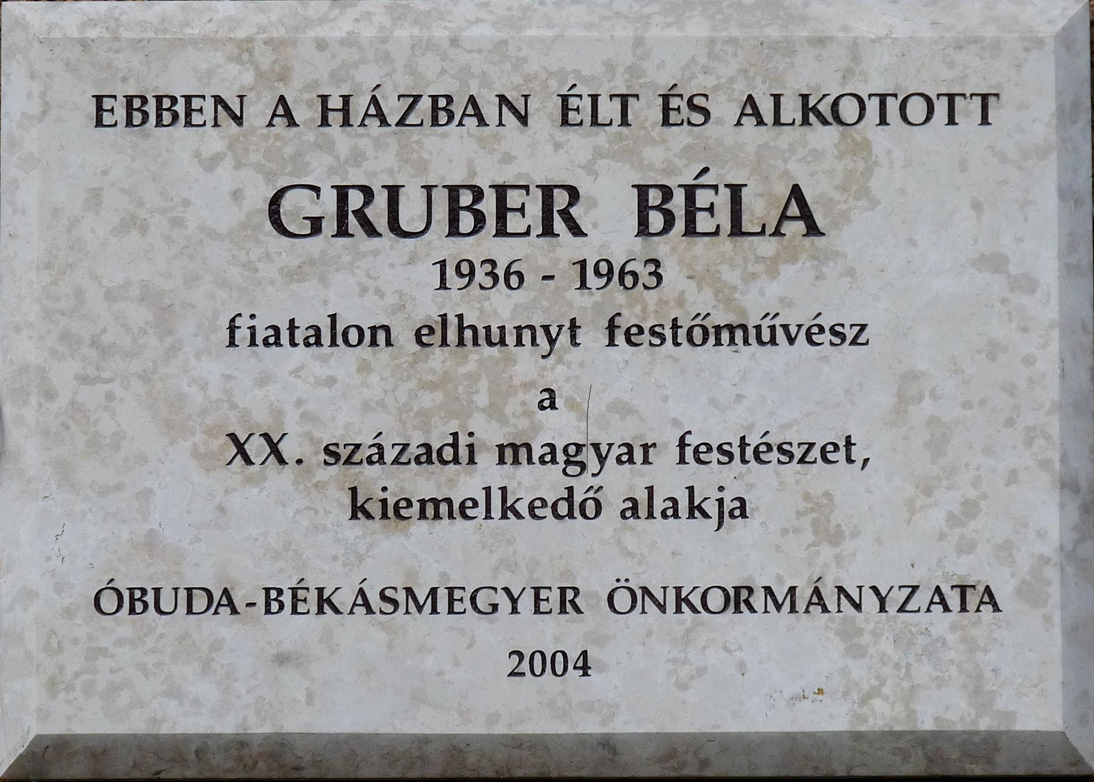 Béla Gruber commemorative plaque in Budapest District III, Tímár Street No 17/b.